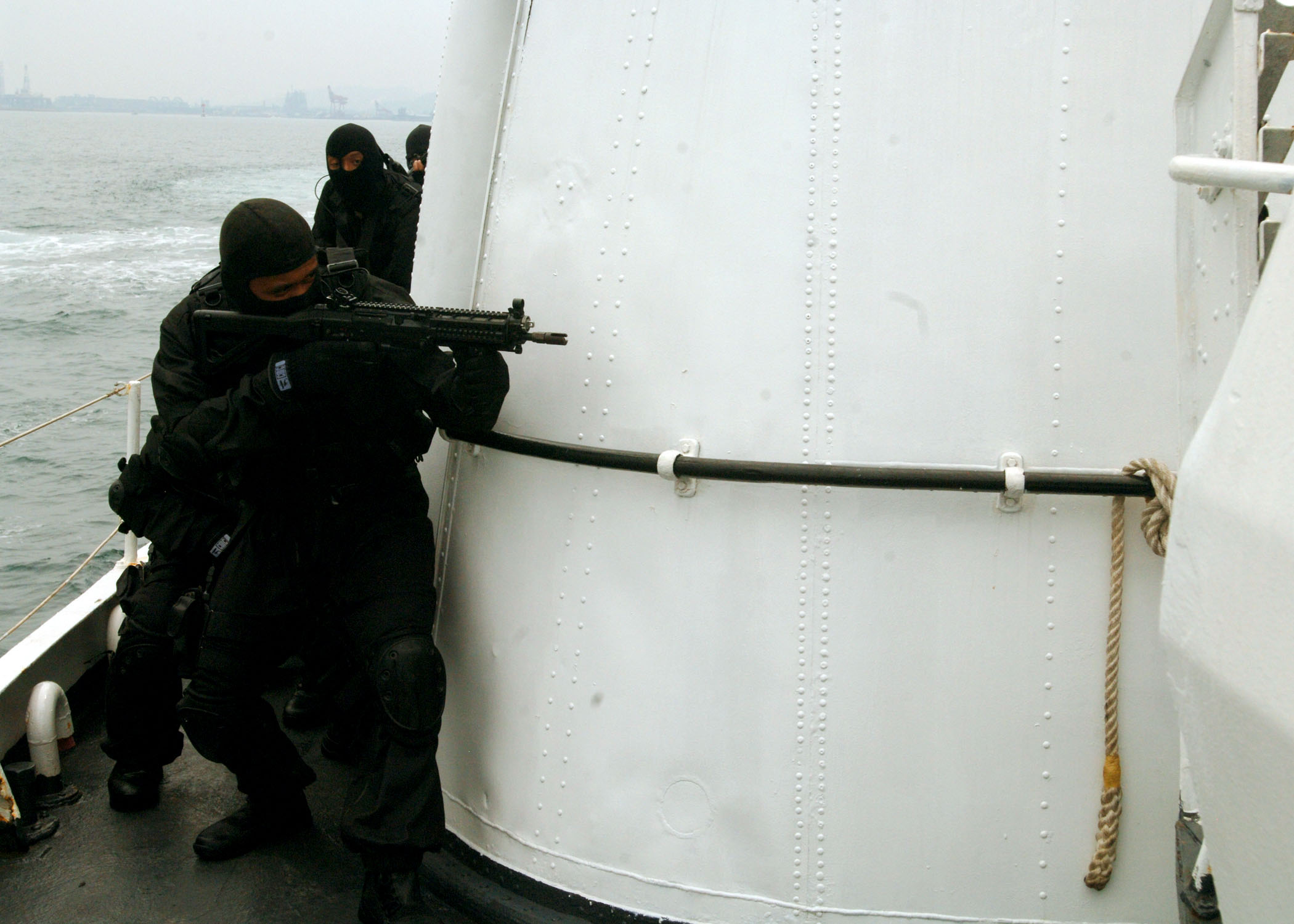 110614-N-NJ145-222 KEMAMAN, Malaysia (June 14, 2011) Malaysian Maritime Enforcement Agency Star Team members and U.S. Coast Guard Maritime Safety and Security Team personnel participate in a tactical boarding training exercise aboard a Malaysian offshore patrol vessel during a during Cooperation Afloat Readiness and Training (CARAT) Malaysia 2011. CARAT is a series of bilateral exercises held annually in Southeast Asia to strengthen relationships and enhance force readiness. (U.S. Navy photo by Mass Communication Specialist 1st Class Robert Clowney/Released)